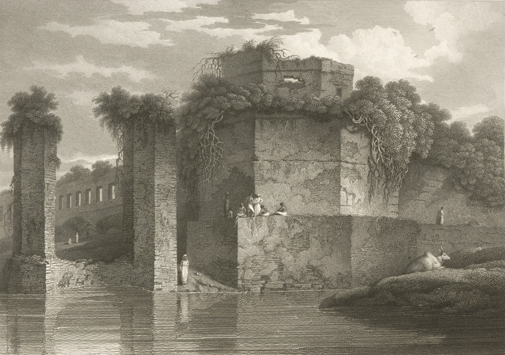 1814 paiting of the Lalbagh Fort, Dhaka, by Charles D'Oyly